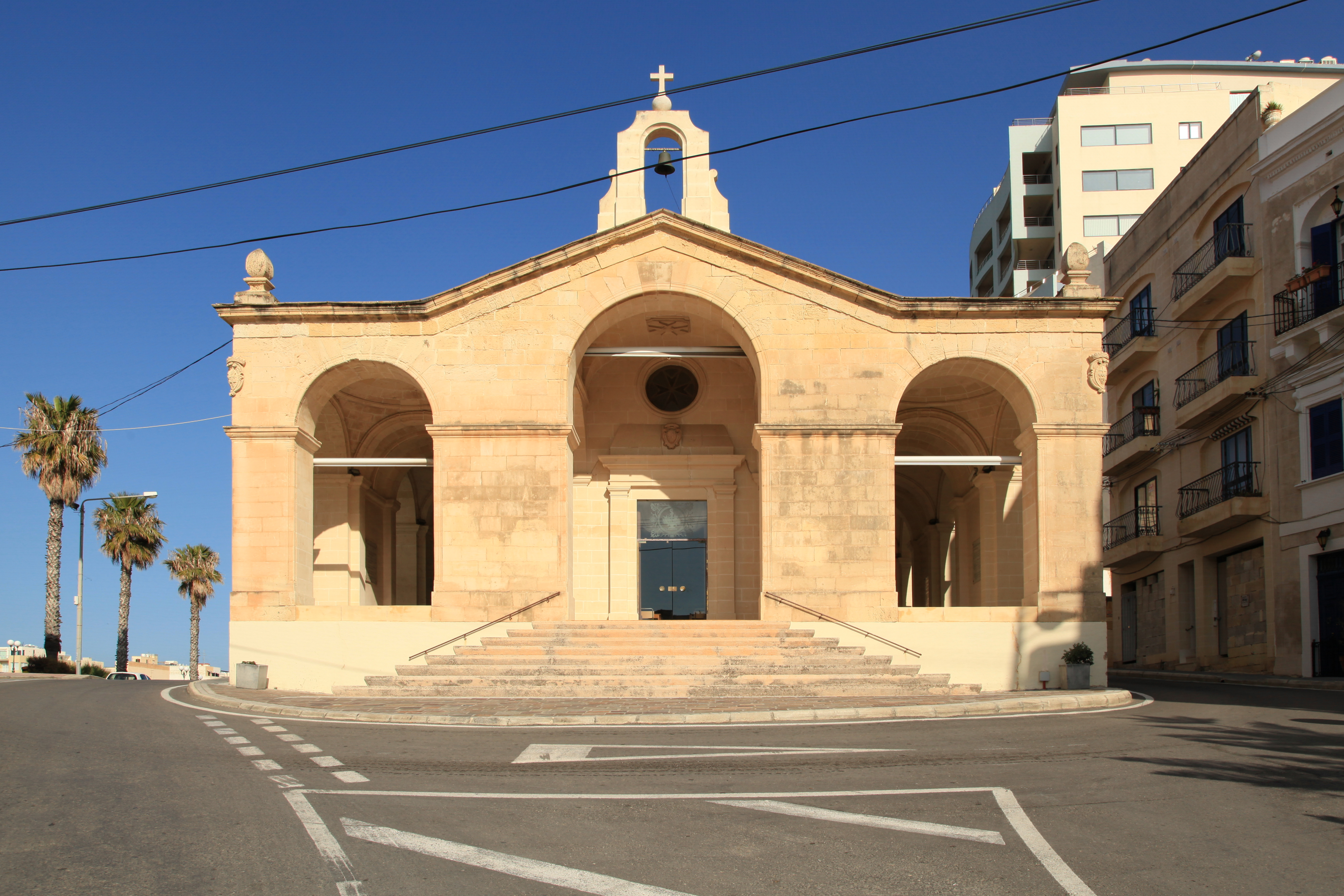 Shipwreck Church, Dawret il-Gżejjer/Triq il-Knisja in St. Paul's Bay, Malta